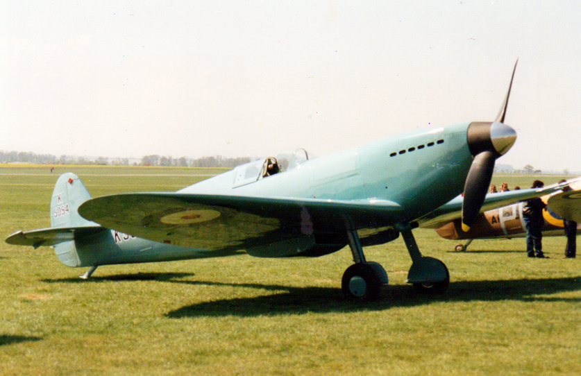 Photographed at the Spitfire 60th Anniversary Airshow, Duxford, 1996. This photo has been used in my article on the the Supermarine Spitfire at Squidoo. Vintage, Veteran and Preserved Aircraft Scanned print. Photo ref; 1996/Spitfire 60th-Duxford/080